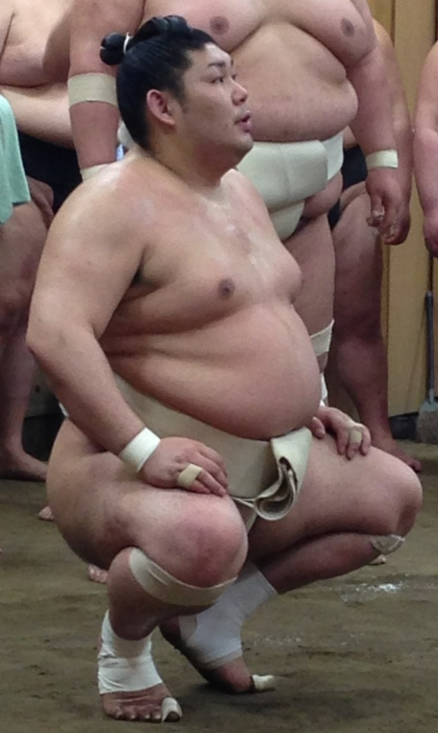 Taken in late April 2013 at sumo stable